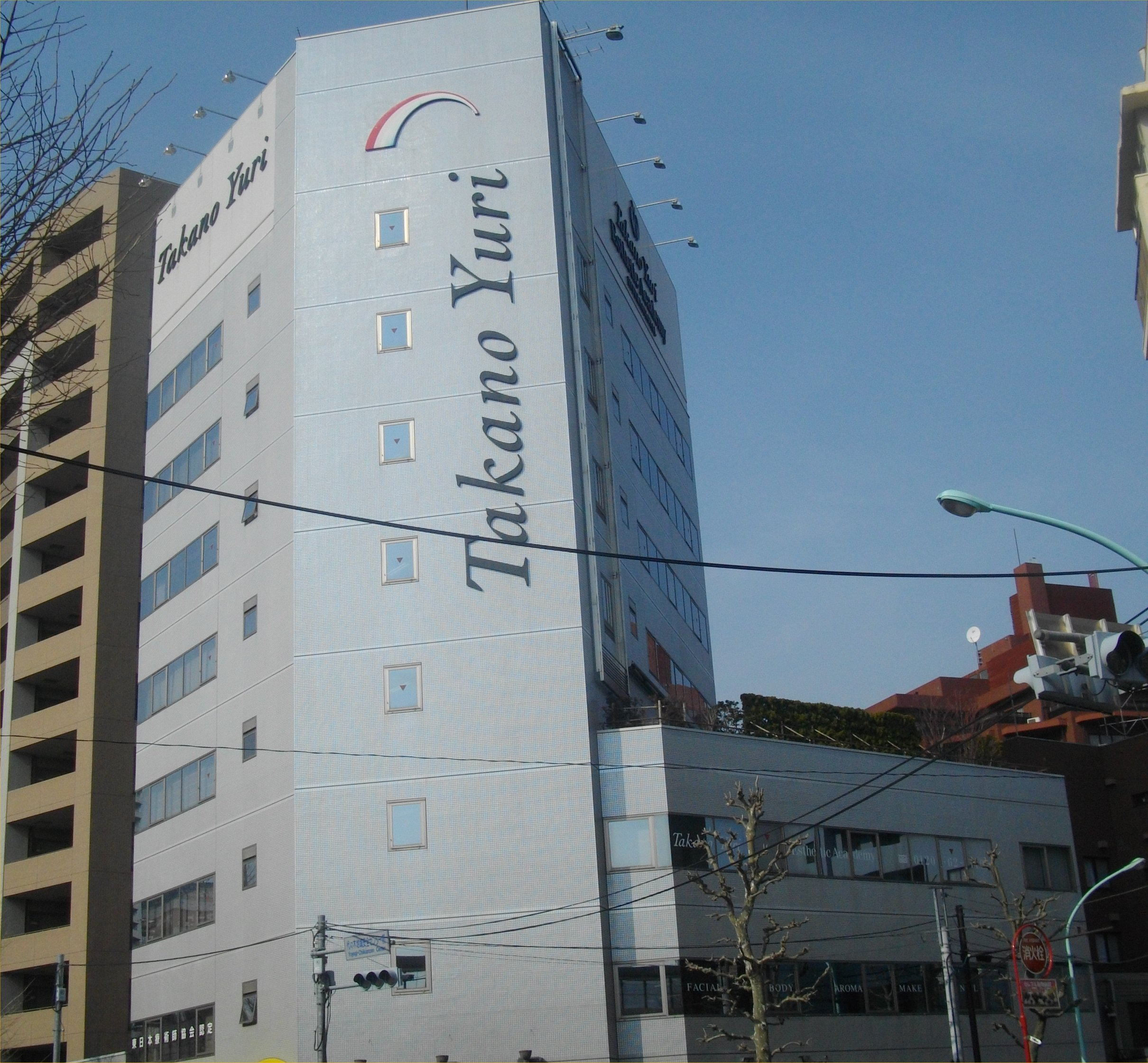 A photo of head office Takano Yuri Beauty Clinic(also called Takano Yuri Rainbow Building.Takano Yuri Beauty Clinic is a company of the esthetic clinic in Japan.)Yoyogi,Shibuya-ku,Tokyo,Japan.